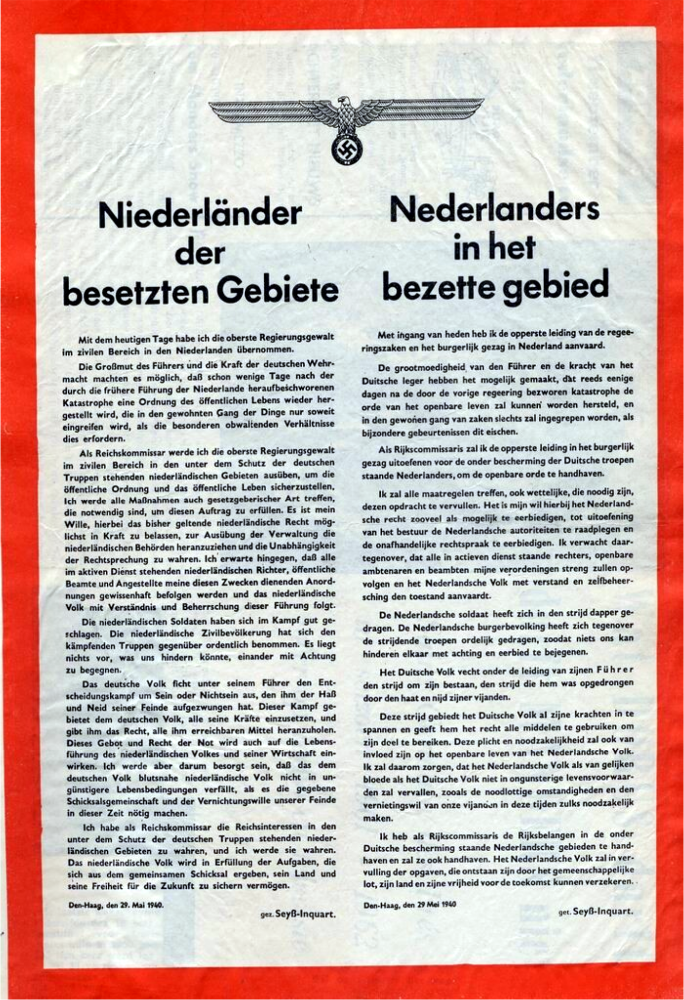 Proclamation of the Reich Commissioner Arthur Seyss-Inquart, in which he declares to have accepted the supreme leadership of the government and of the civil authorities in the Netherlands.